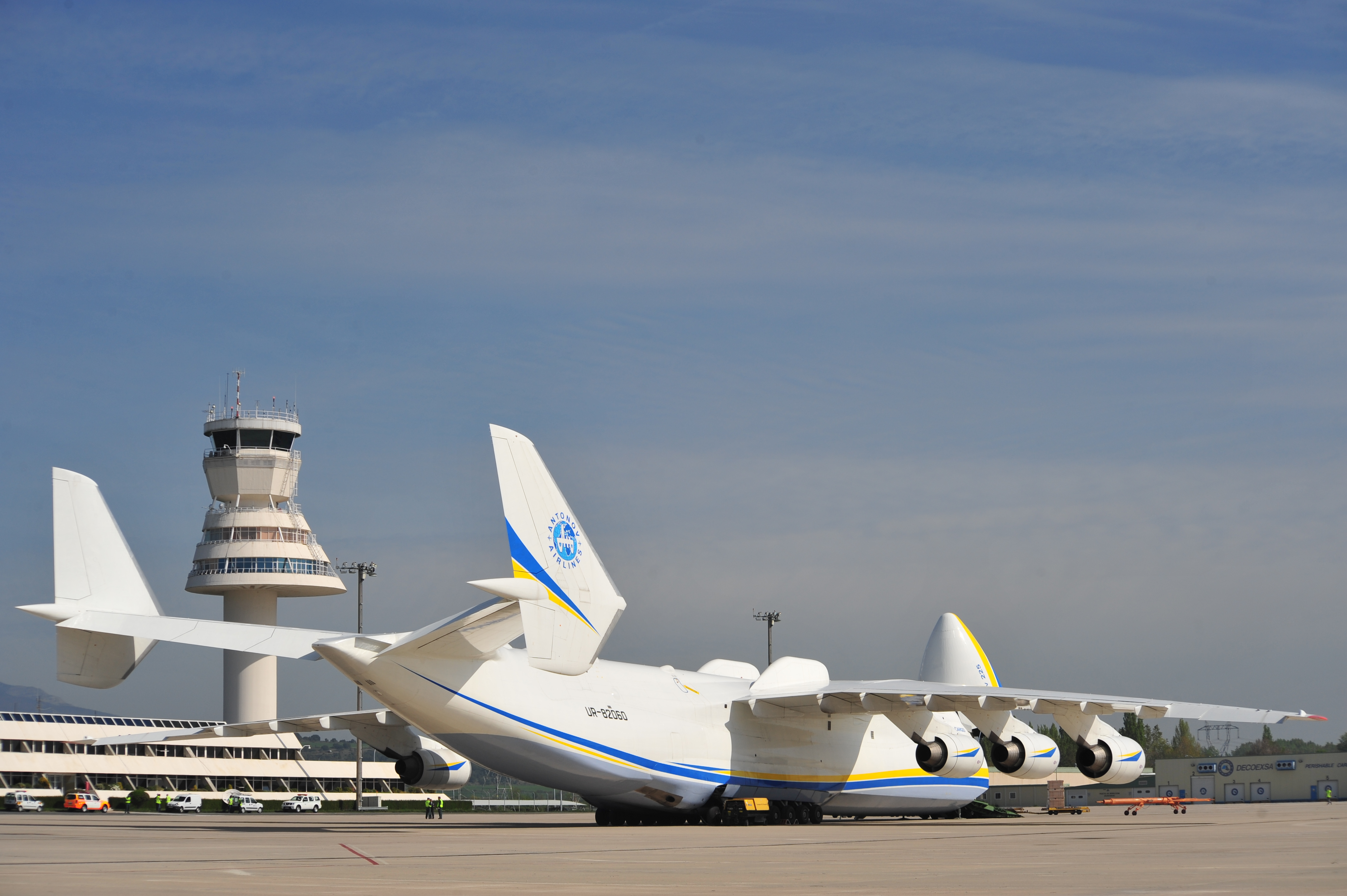 Antonov An-225 airplane at Vitoria Gasteiz Foronda airport